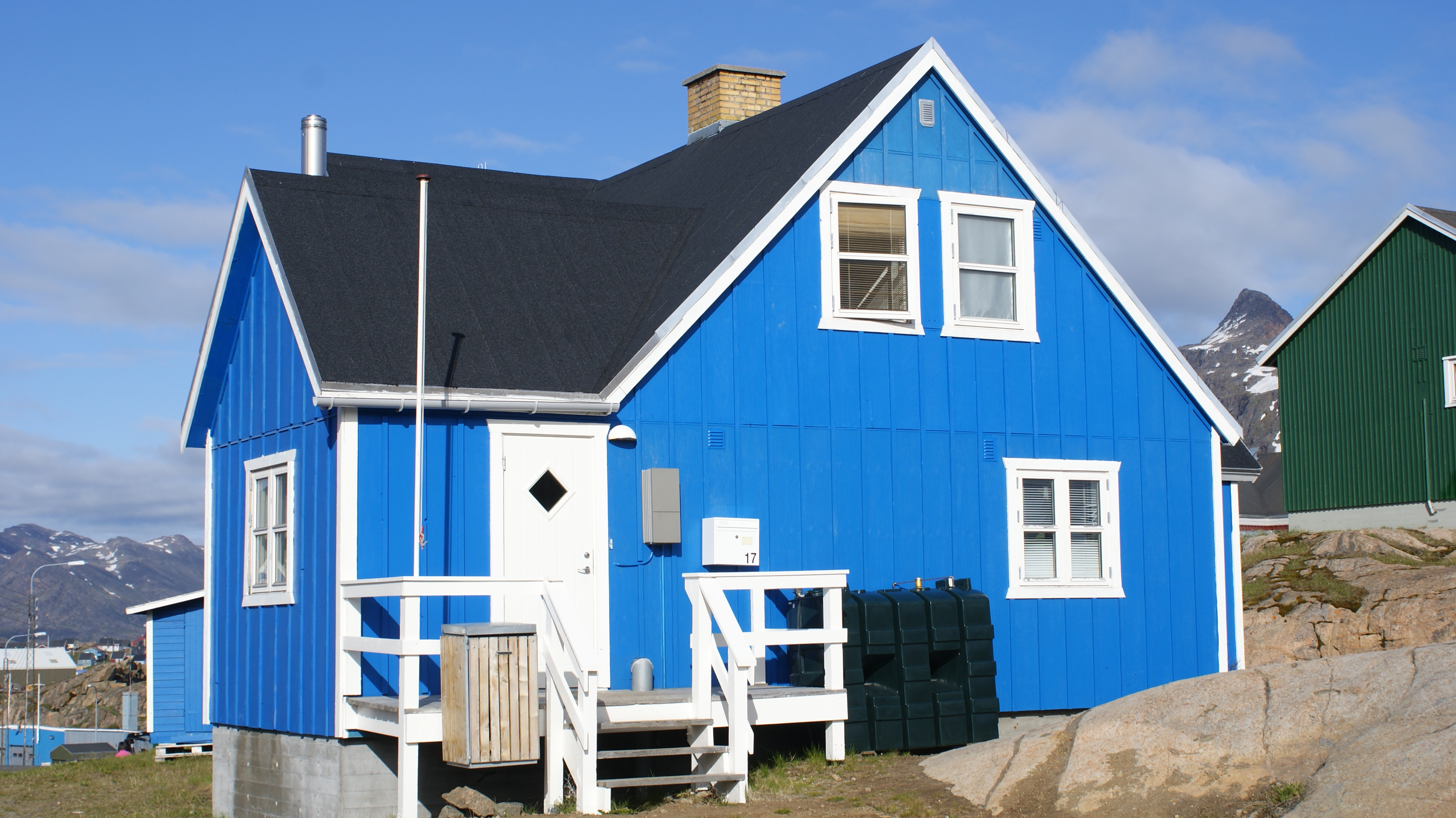 Prefab house in Sisimiut, Greenland.